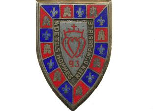 regimental badge of the 93st Infantry Regiment.